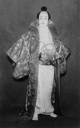 Kanya Morita XIV (1907–1975)